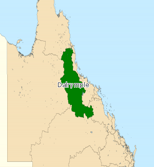 Electoral district of Dalrymple (Queensland, Australia)